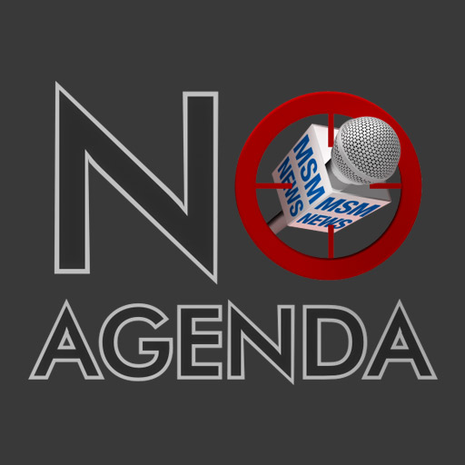 The default cover/logo for No Agenda.